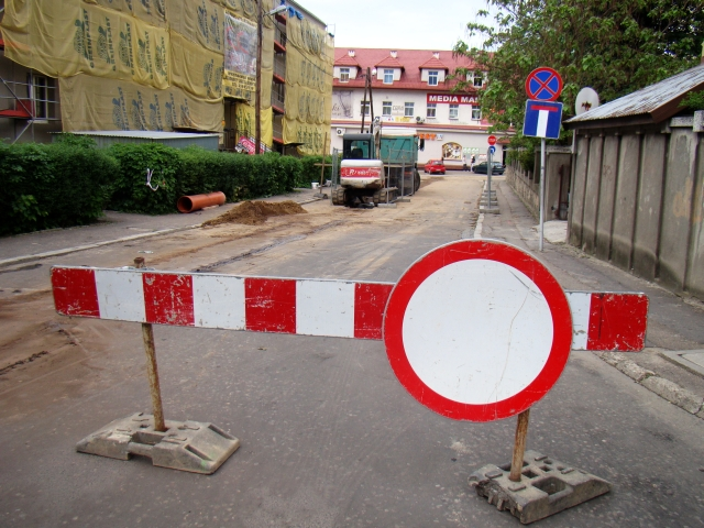 Closed road Wałowa Street in Sanok, Poland. Road barrier and polish road sign (Prohibitory sign znak B-1.